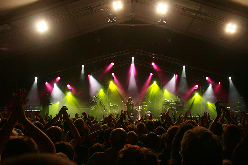 The main stage at the Cambridge Folk Festival 2008